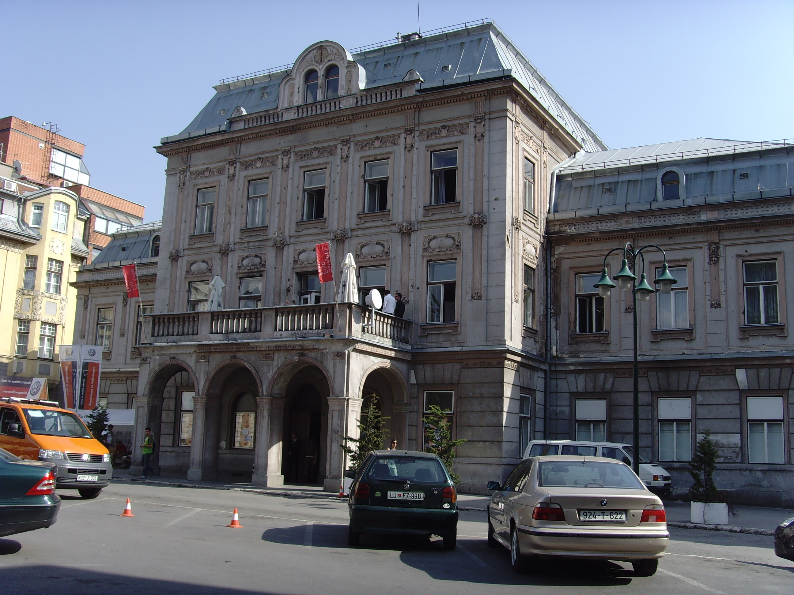 Dom armije Sarajevo